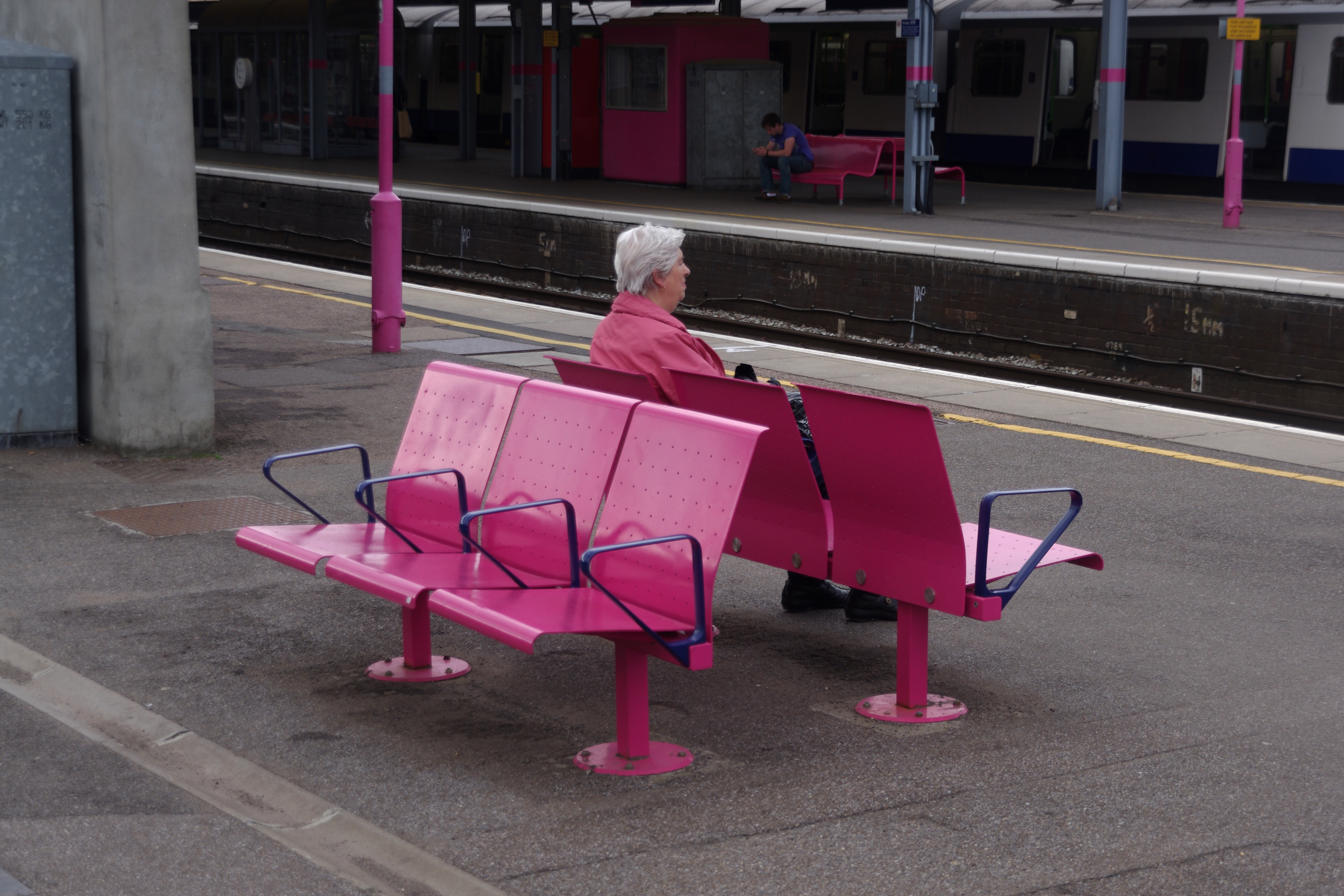 A woman in a violently pink jacket sits on a violently pink bench at Upminster railway station. c2c seem to quite like the pink.